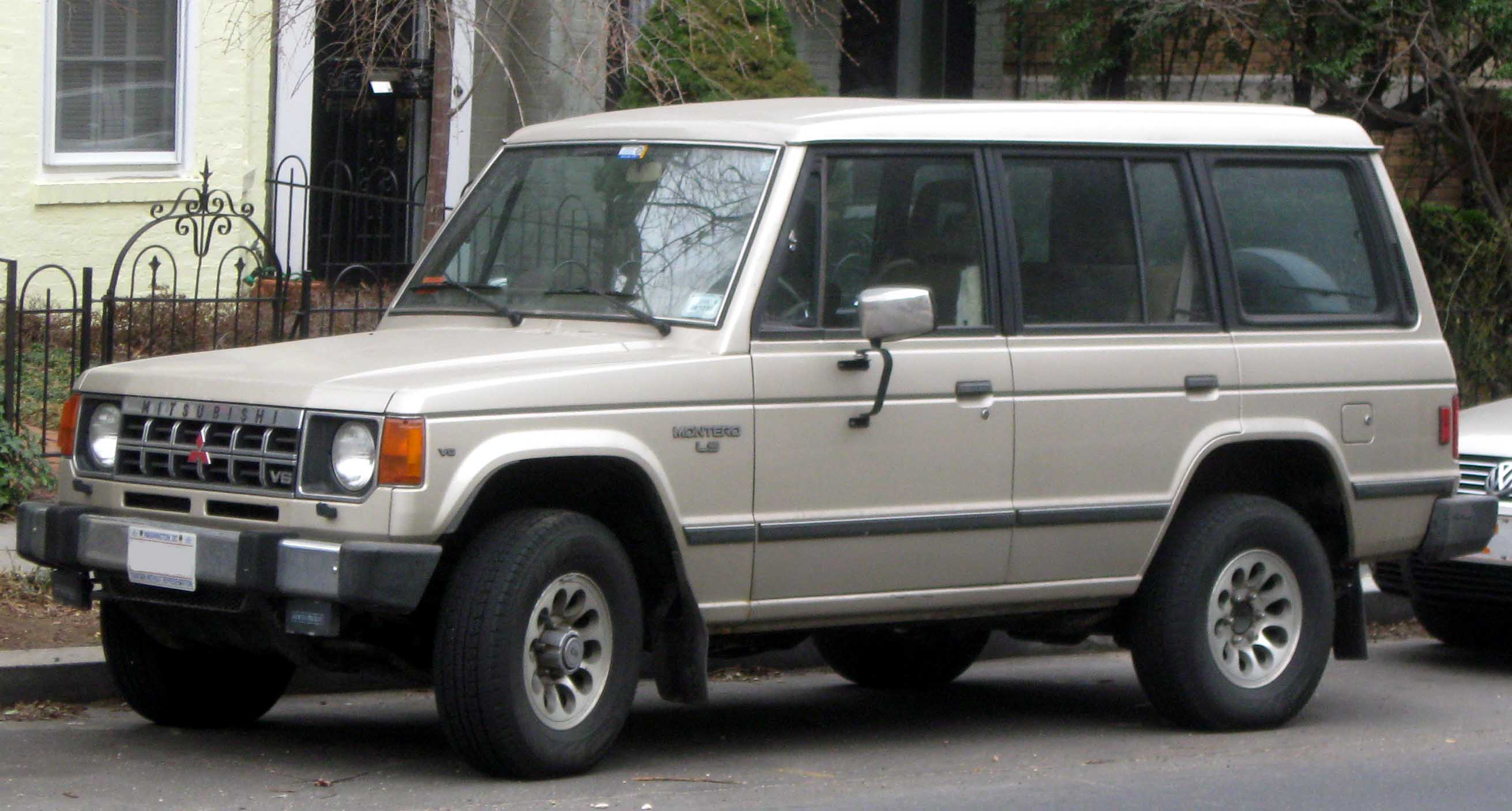 1988-91 Mitsubishi Montero LS V6 photographed in Washington, D.C., USA.